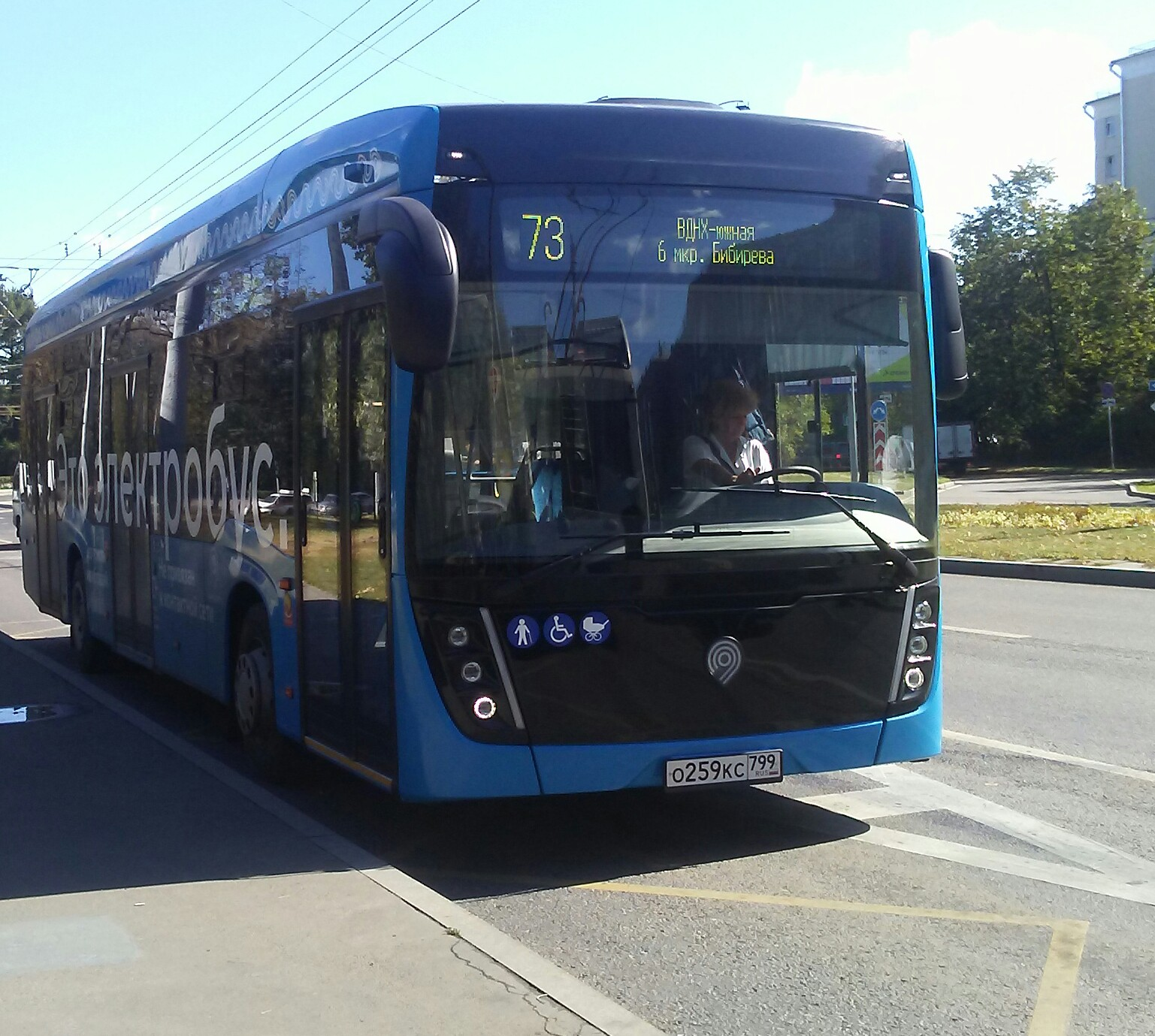 KamAZ-6282 city electric bus used by Mosgortrans, Moscow.